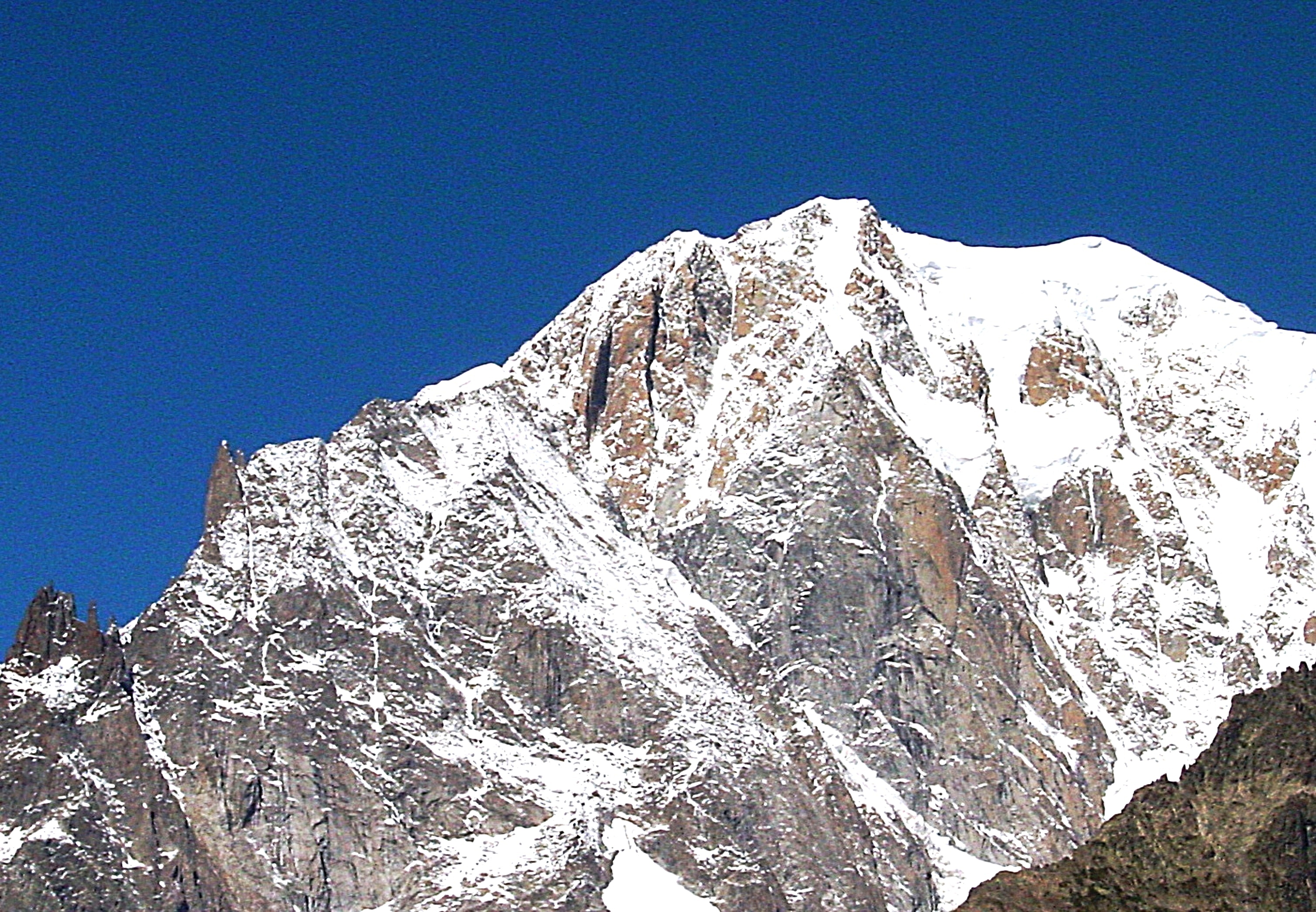 View of Mont Blanc, Aosta Valley